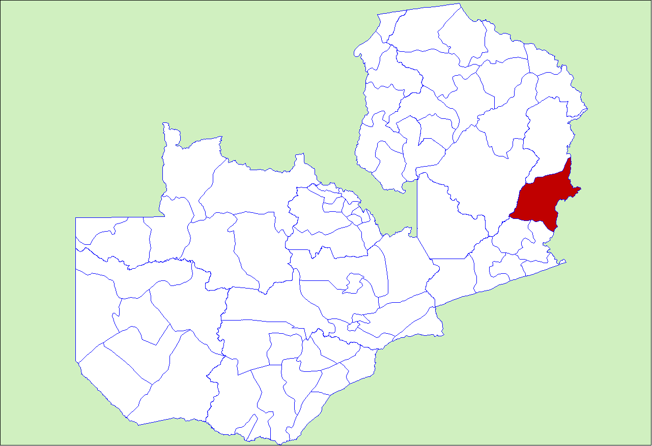 District locator in Zambia